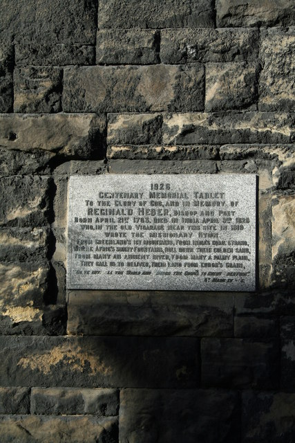 Memorial Plaque This stone set into the wall that once carried the Bridge (Wrexham -Ellesemere Railway) over Vicarage Hill, Wrexham, is dedicated to Bishop Heber, missionary clergyman who was born in Malpas, Cheshire 1783. He wrote several hymns, one of which, his missionary hymn, he penned whilst staying at the former vicarage which was near to this spot. The building was probably sacrificed to make way for the new railway.